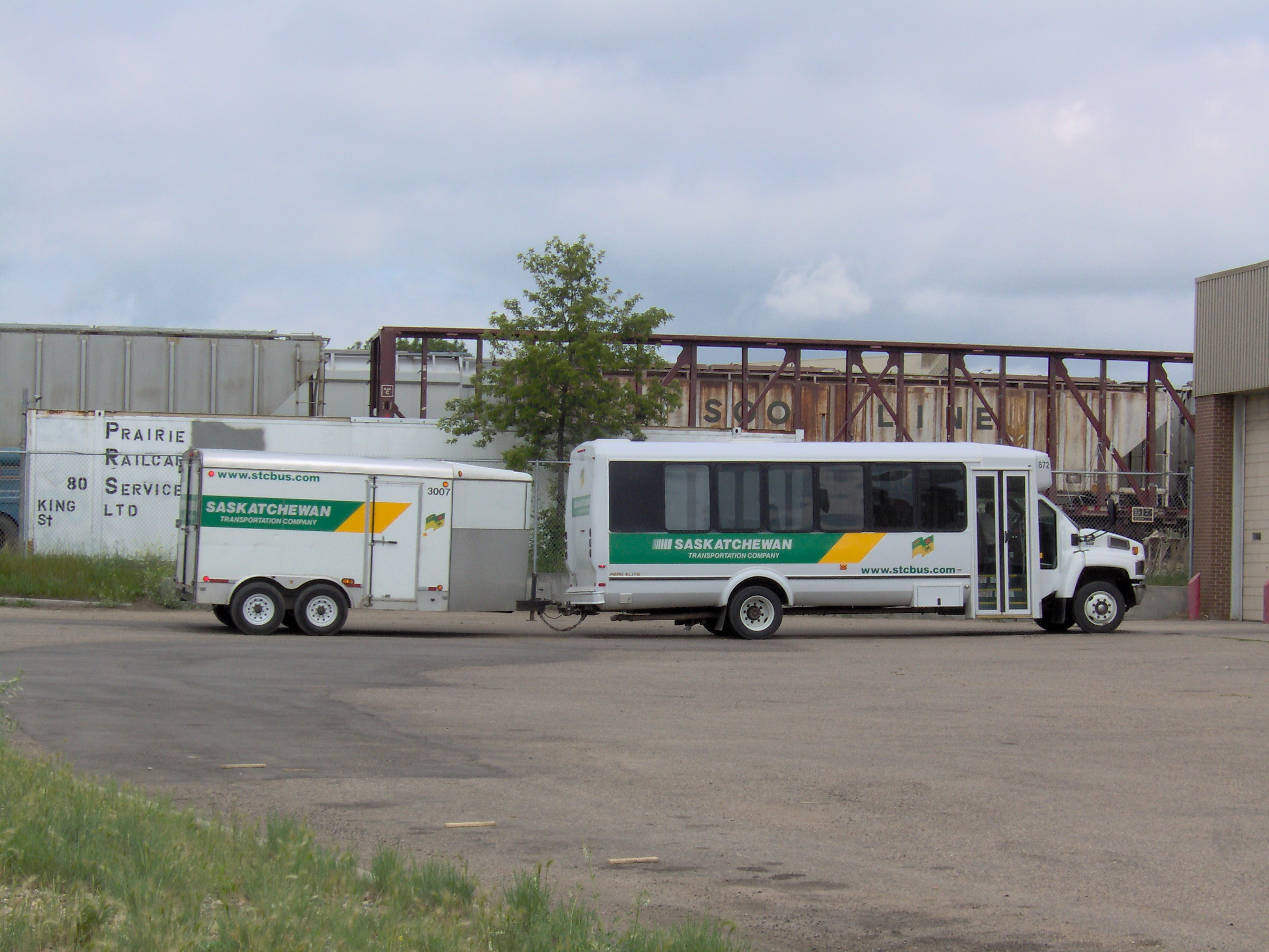 Saskatchewan Transportation Company bus and trailer at the Bus Service Center, Saskatoon.